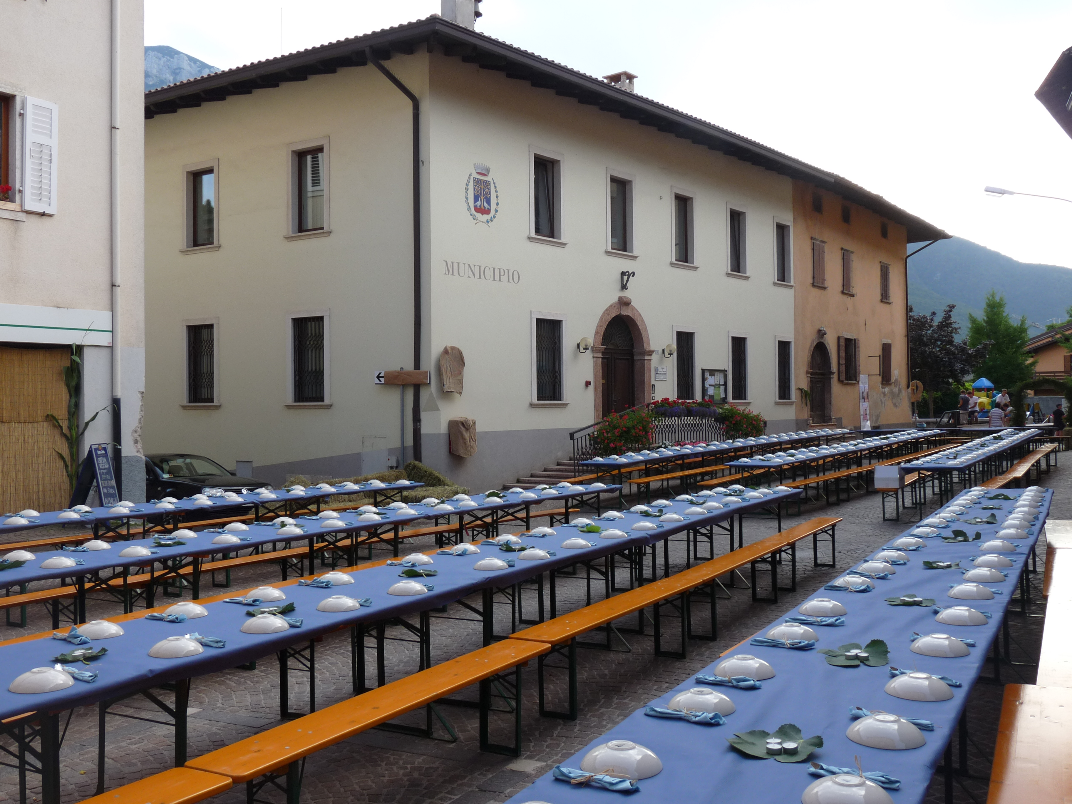 Vigolo Vattaro (province of Trento, Italy): the town hall and preparatives for the "veci saóri" (vecchi sapori - old tastes) supper in the open